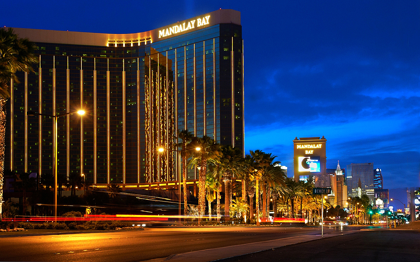 the main street taken at dusk